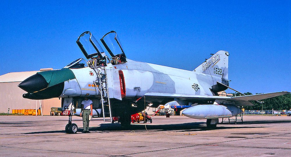 122d Tactical Fighter Squadron - McDonnell F-4C-19-MC Phantom 63-7552 Retired to AMARC 1987